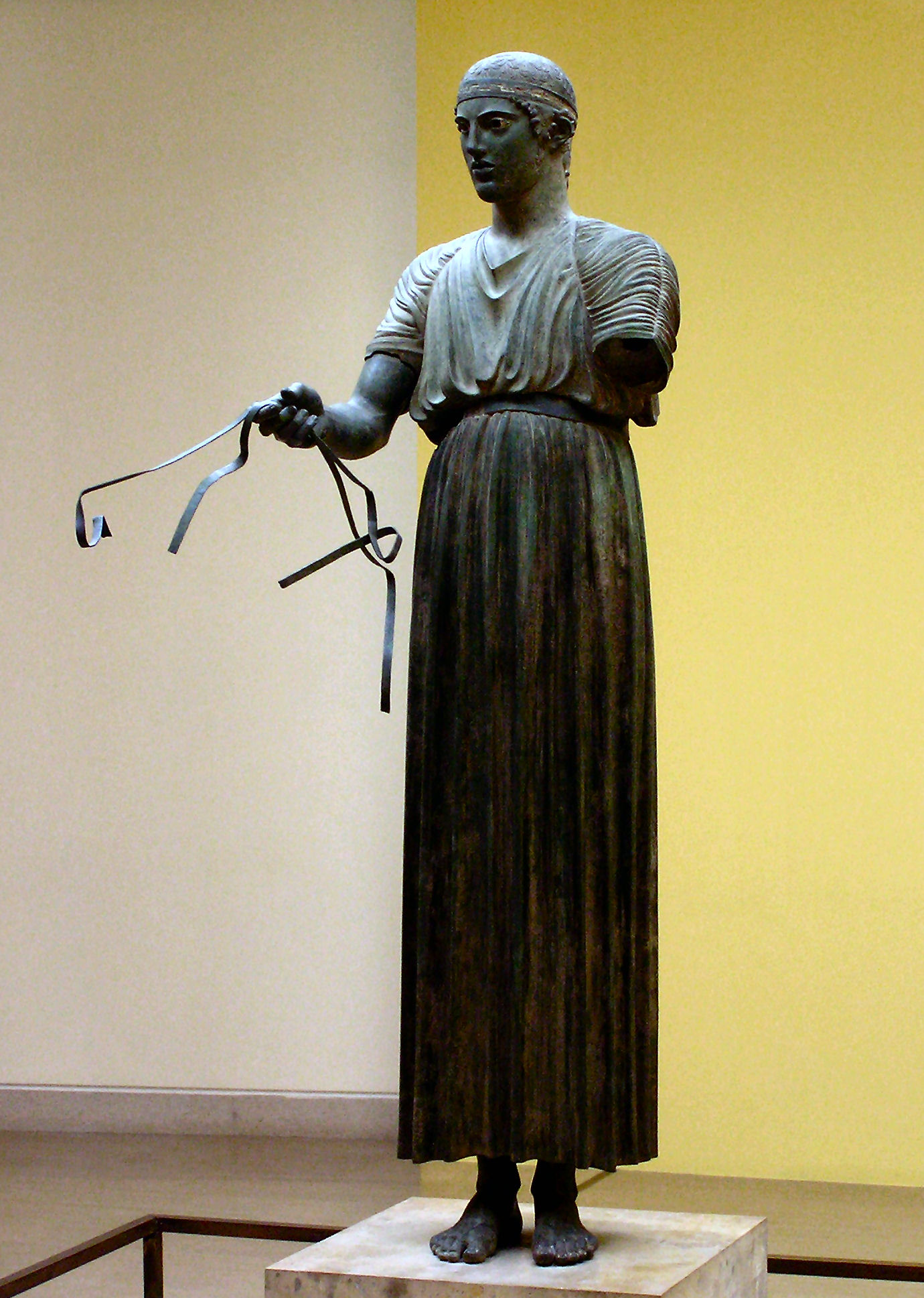 Charioteer of Delphi